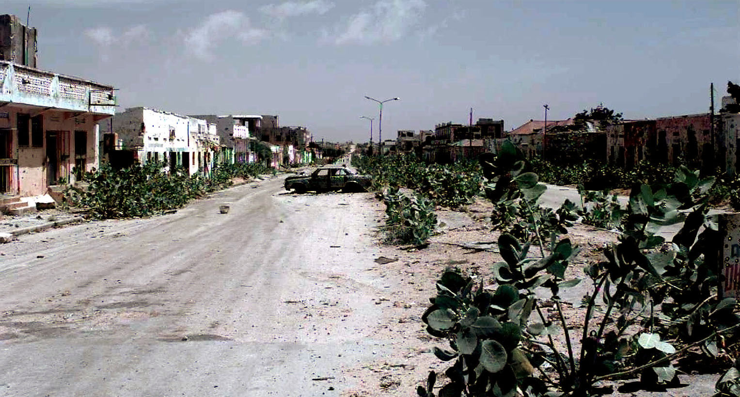 A long shot of an abandoned MOGADISHU Street known as the "Green Line". Foliage has grown up along the sidewalk on both sides of the street. An abandoned, burned out car is seen in the center of the frame. The street is the dividing line between North and South MOGADISHU, and the warring clans. Members of the clans (not shown) tore down the roadblocks along the line in a show of unity. This mission is in direct support of Operation Restore Hope.